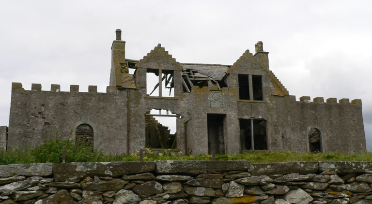 Windhouse, Yell, Shetland, Scotland